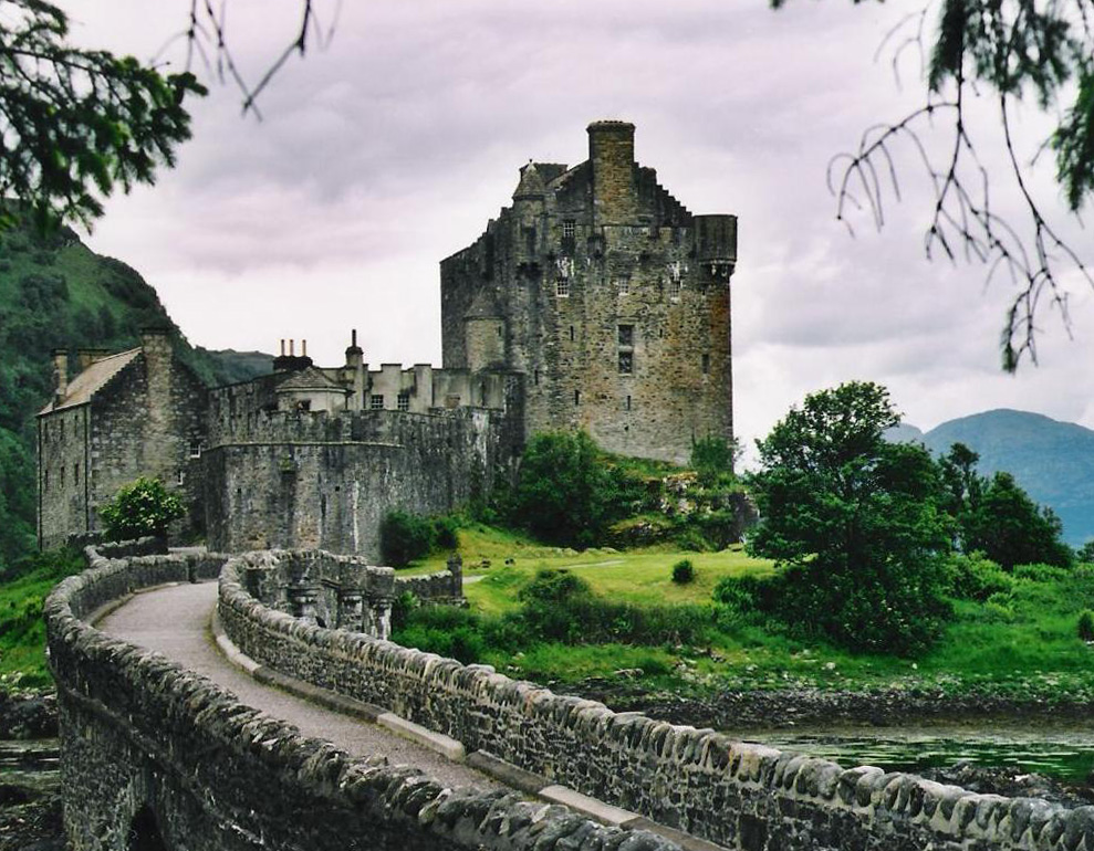 Eilean donan Castle in Scotland, by the lake Loch Duich. It lies a couple of miles east from the Isle of Skye. The castle is one of the most photographed castles in Scotland. I have rotated Image:Eilean donan castle2.JPG, a little.